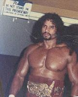 Jimmy Snuka on his way to the ring in Toronto's Maple leaf Gardens 1981.